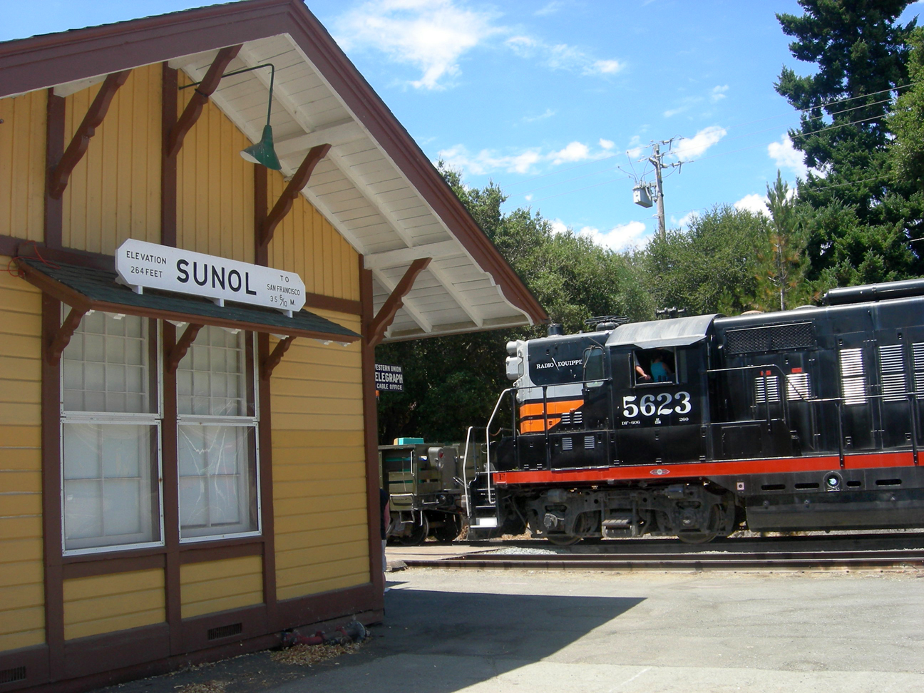 Sunol Depot, Niles Cañon Railway, Sunol with Southern Pacific #5623 General Motors Electro-Motive Division GP9 passenger service-equipped "torpedo boat" diesel electric locomotive (1955) in the background